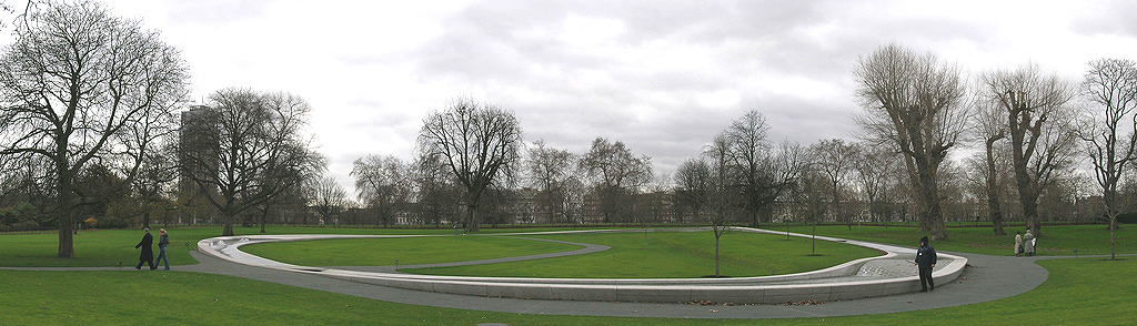 Diana, Princess of Wales Memorial Fountain in Hyde Park, London